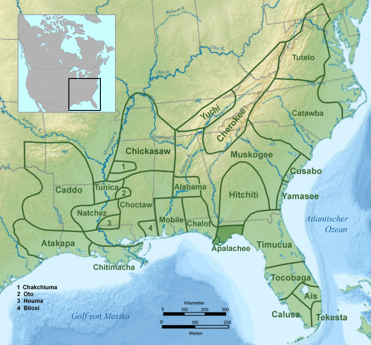 Tribal territory of Apalachee during seventeenth century